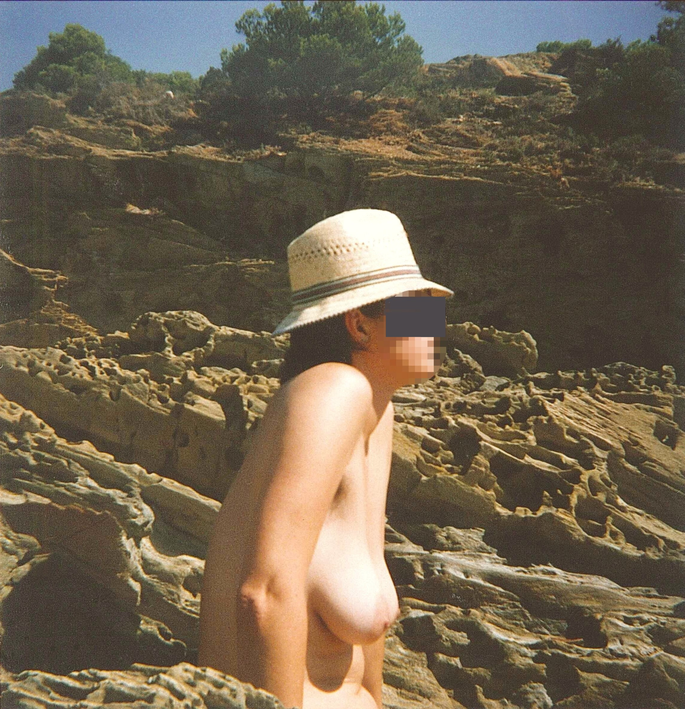 Cadaqués - Sa Conca